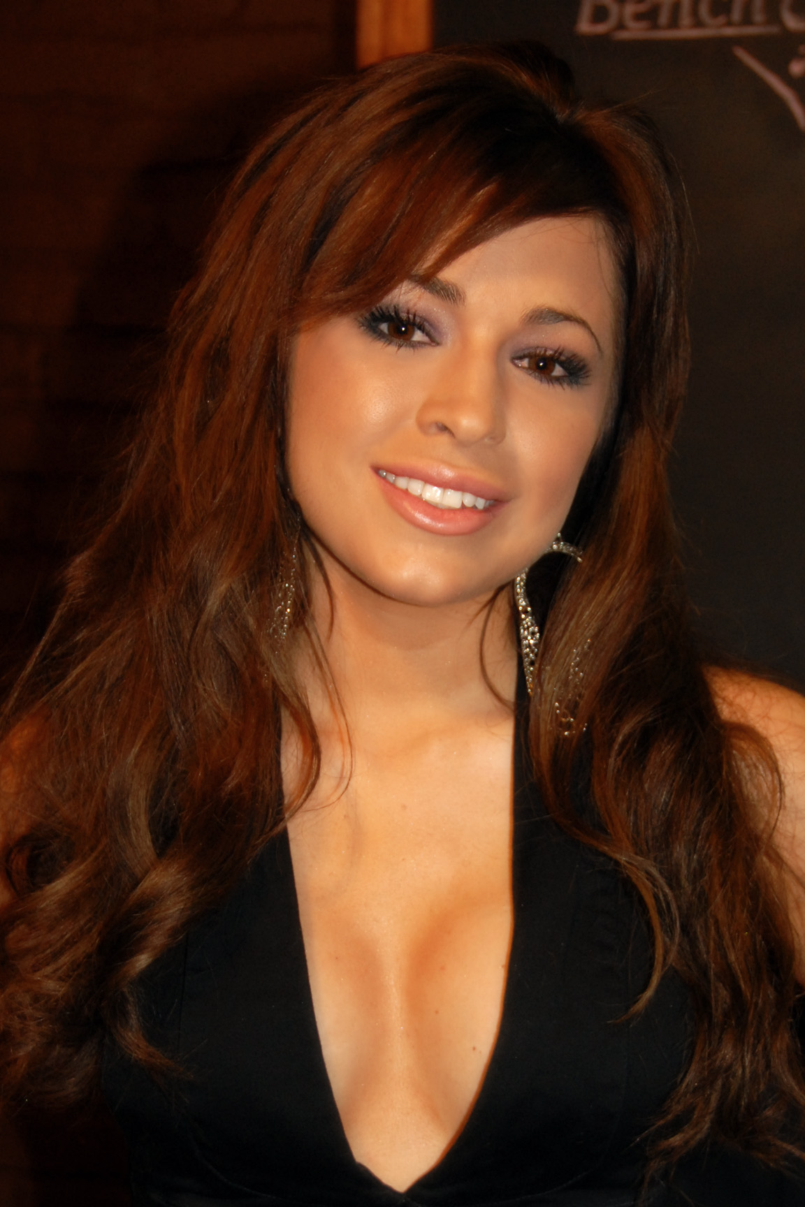 Kari Ann Peniche attending the Bench Warmer "Back-To_School" Party at Empire, Hollywood, CA on August 28, 2009 - Photo by Glenn Francis of